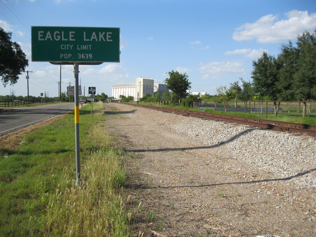 Photo shows the Eagle Lake city limits sign on Farm to Market Road 102. In the background is the Eagle Lake Rice Dryer. The railroad line is abandoned. View is to the north.